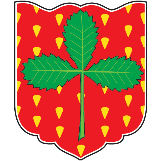 Coat of Arms of the city and municipality of Jagodina, Serbia